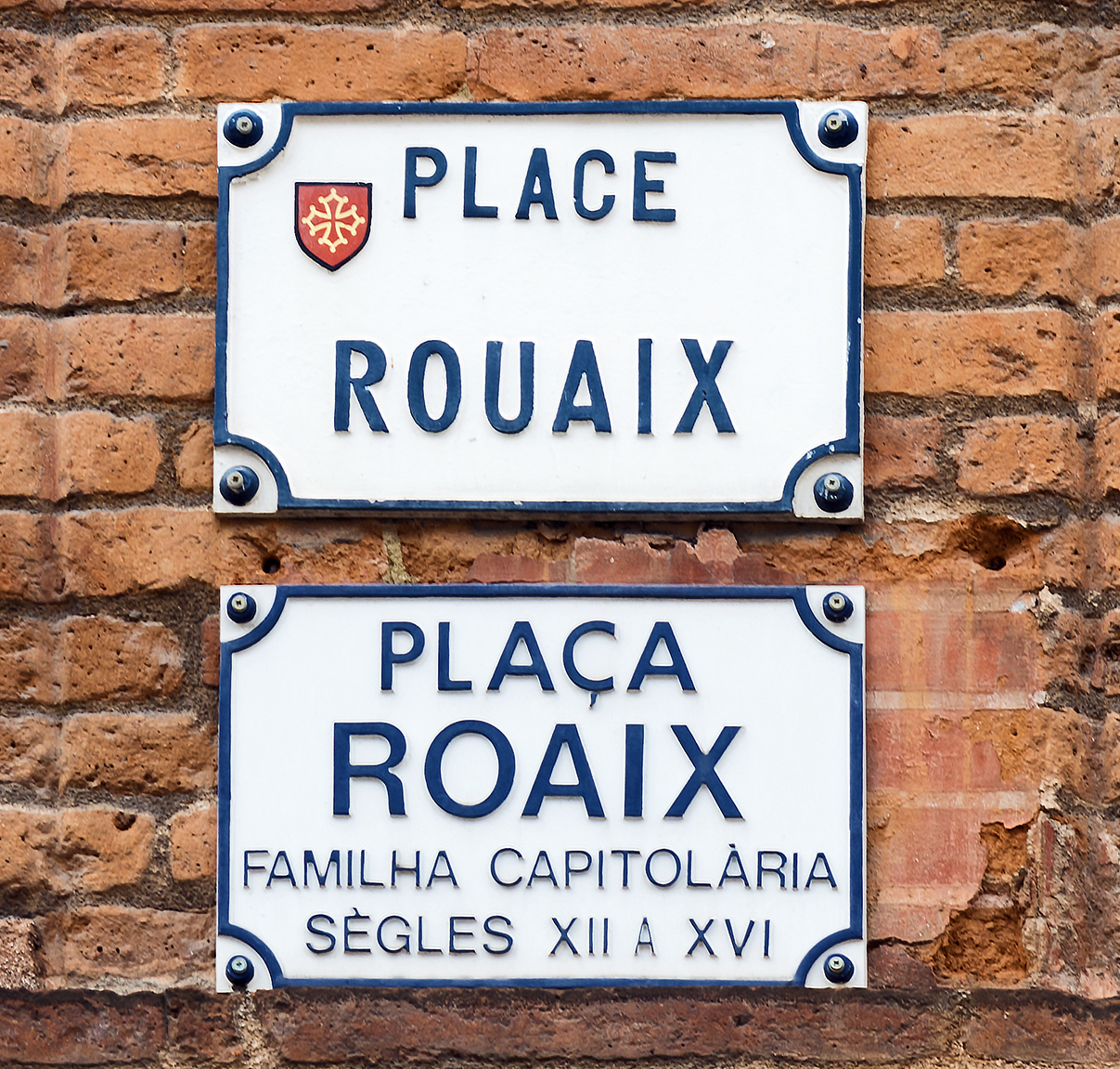 Street name sign in Toulouse. They have the particularity of being: in French and Occitan. La place Rouaix.